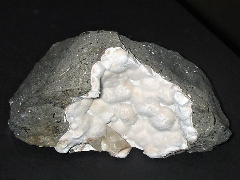 Thomsonite from old Quarry in Pihel near Česká Lípa, Czech Republic